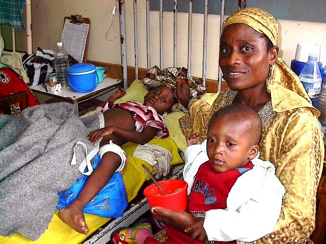 Young girl Promise was wounded by a bullet during religious riots in 2001. Here she is recovering in the hospital. Jos, Nigeria